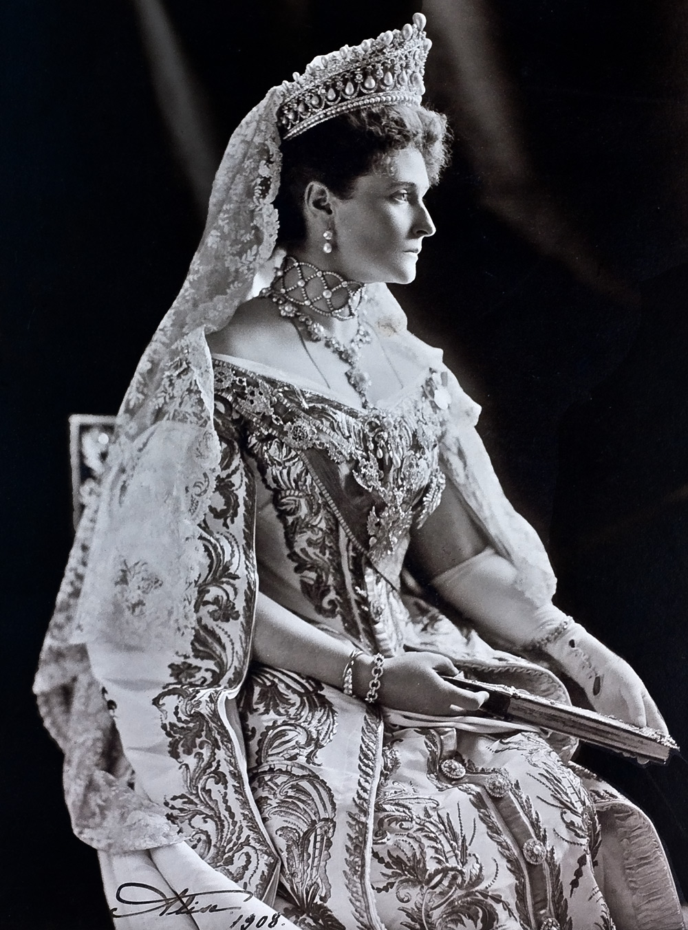 The last Russian Empress Alexandra Feodorovna, spouse of Nicholas II.